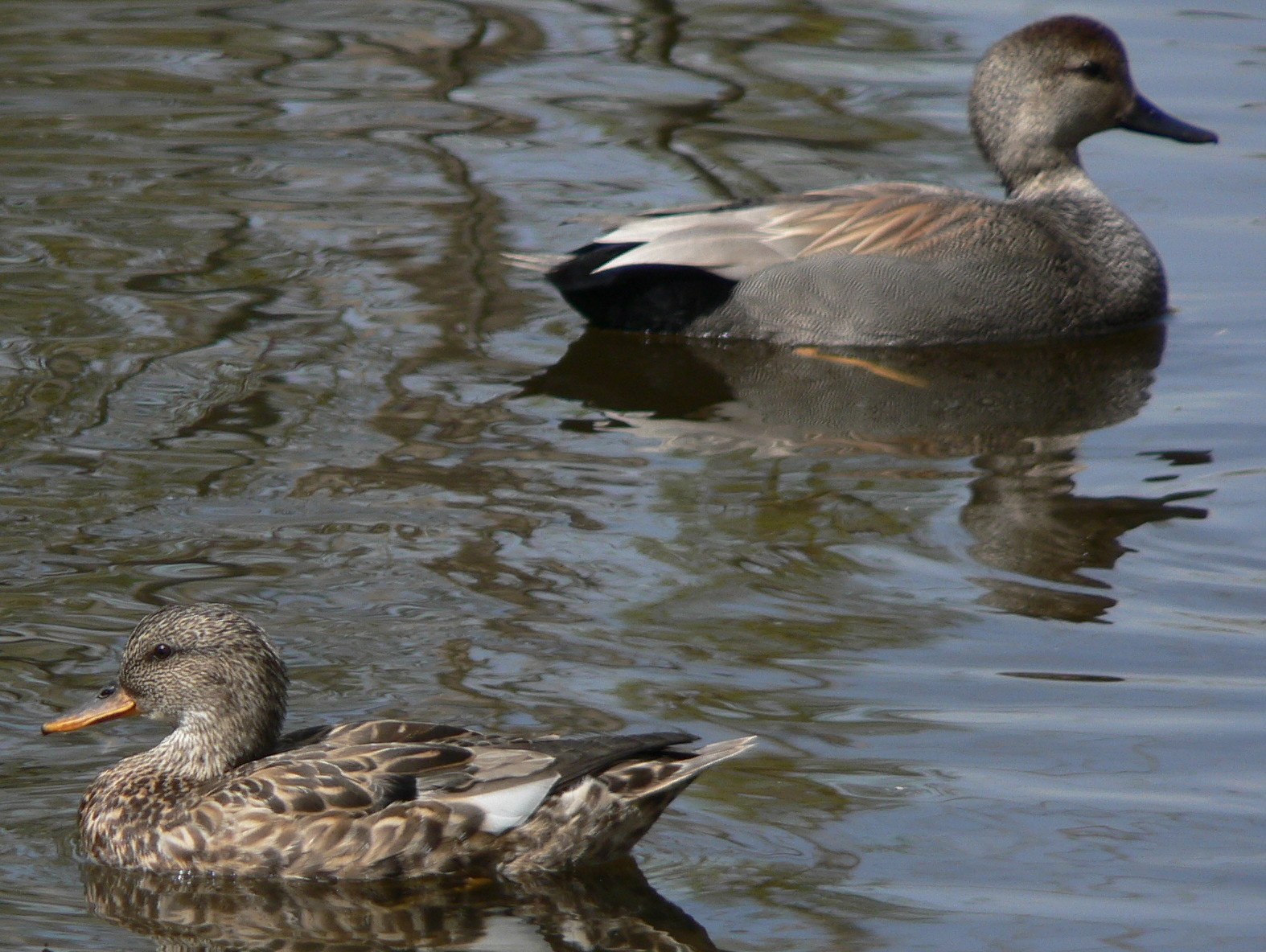 Gadwall female with male behind